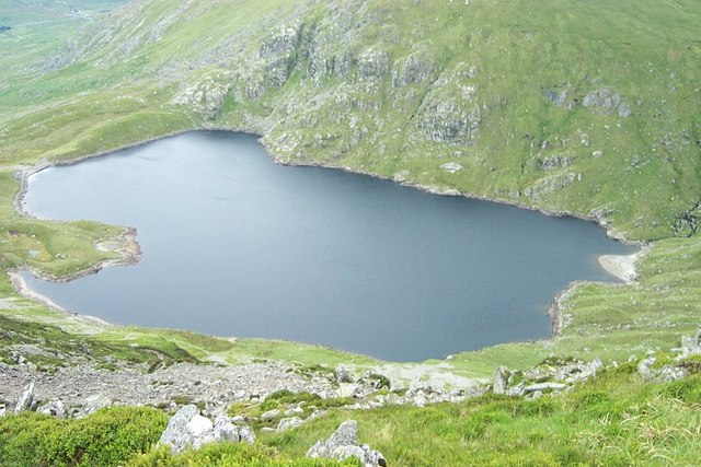 Ffynnon Llugwy reservoir. Ffynnon Llugwy reservoir taken from near the summit of Pen Yr Helgi Du.